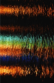 Water, somewhere in the world, fot. Elżbieta Dzikowska